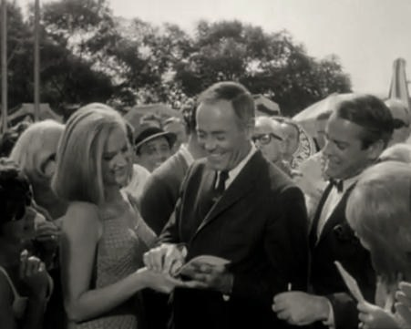 Henry Fonda (center) and Kevin McCarthy (right) in The Best Man (1964) - trailer (cropped screenshot)